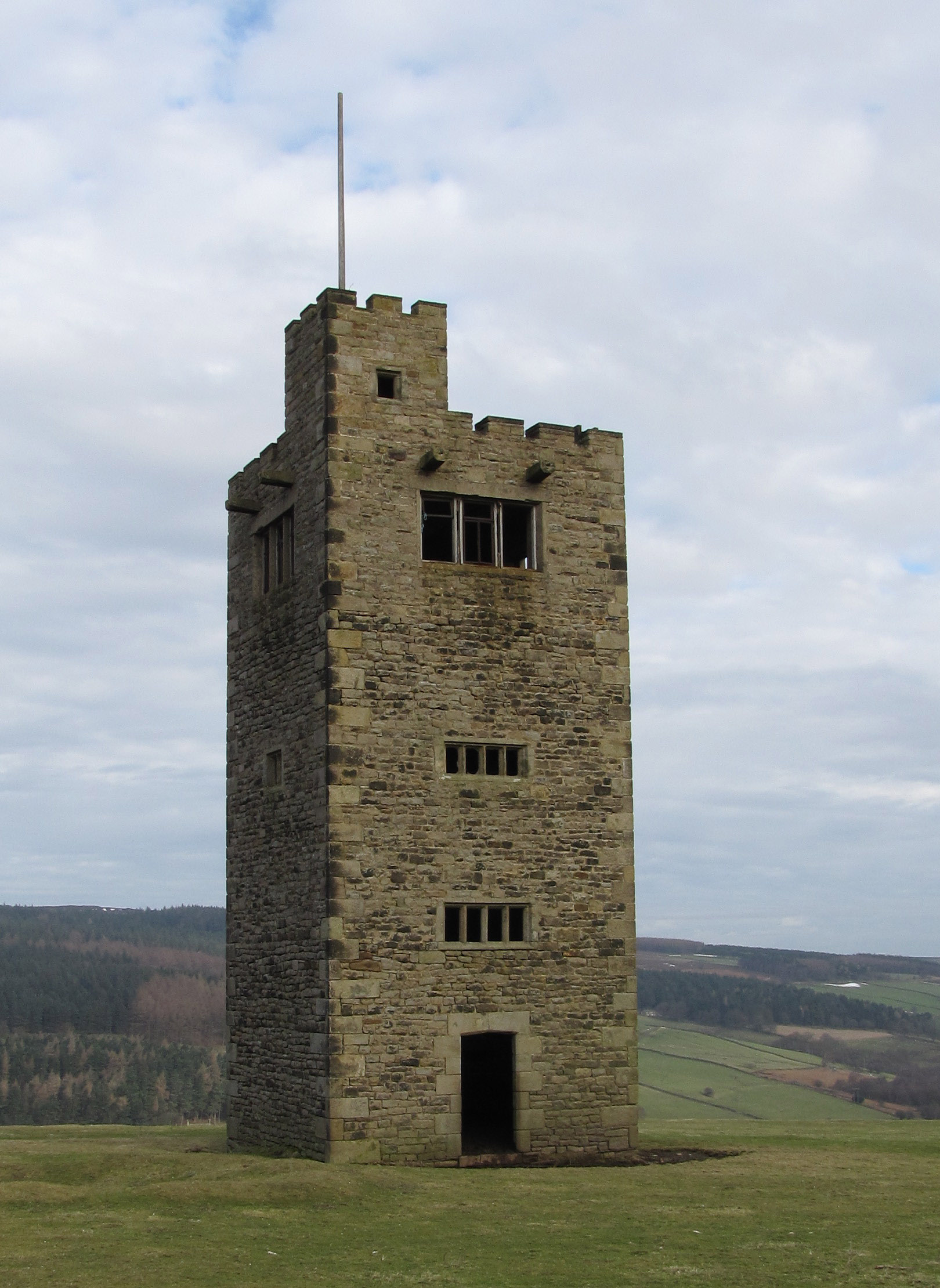 Boots Folly, Strines, Sheffield, South Yorkshire